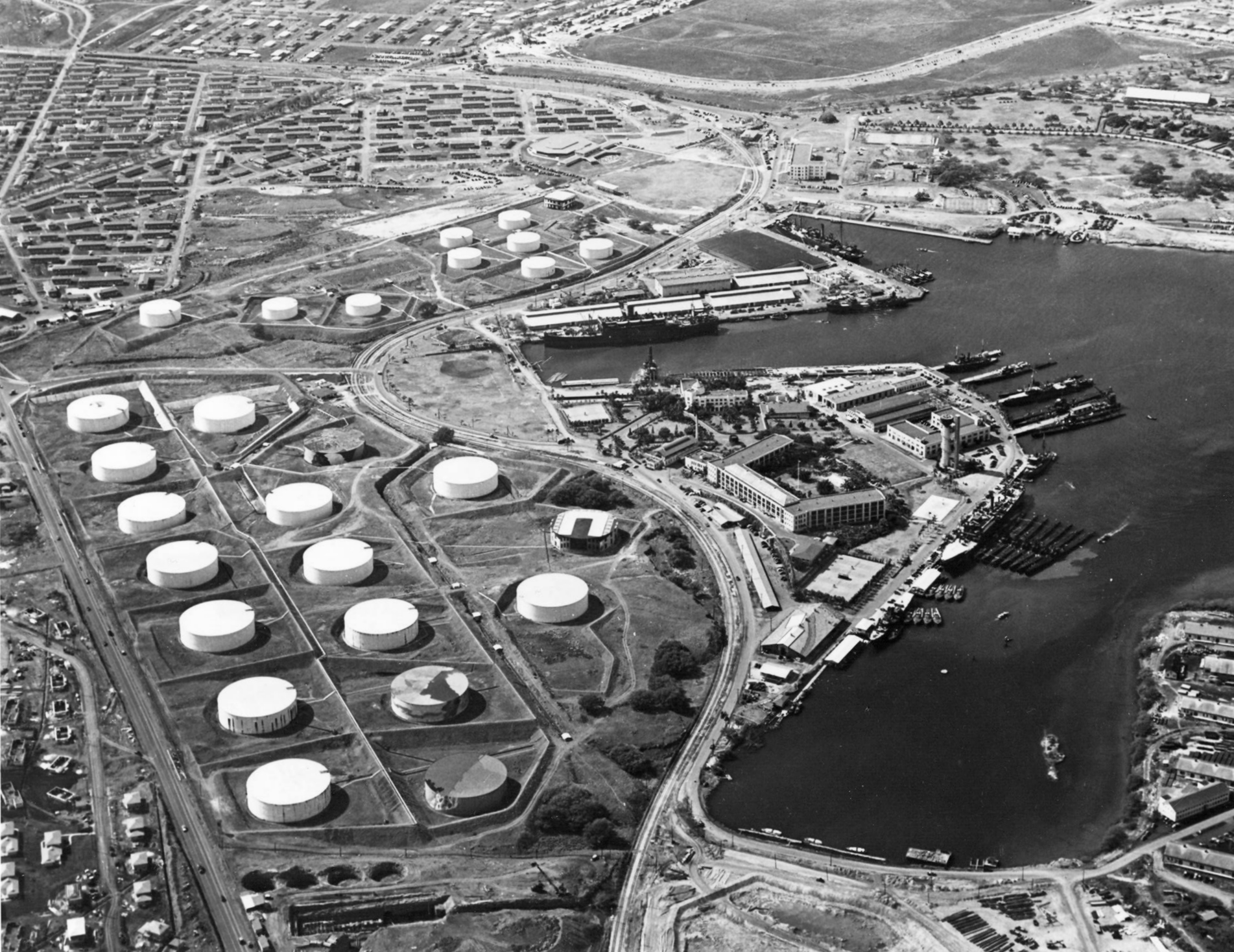 Aerial view of the Pearl Harbor submarine base (right center) with the fuel farm at left, looking south on 13 October 1941. Among the 16 fuel tanks in the lower group and ten tanks in the upper group are two that have been painted to resemble buildings (topmost tank in upper group, and rightmost tank in lower group). Other tanks appear to be painted to look like terrain features. Alongside the wharf in right center are USS Niagara (PG-52) with seven or eight PT boats alongside (nearest to camera) and USS Holland (AS-3) with seven submarines alongside. About six more submarines are at the piers at the head of the submarine base peninsula.